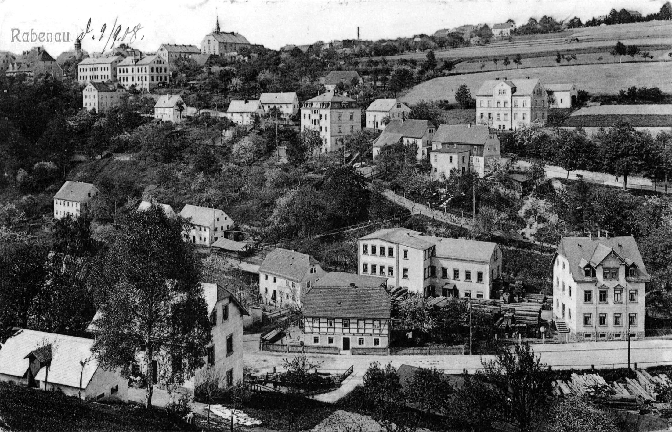 View on Rabenau in Saxony.